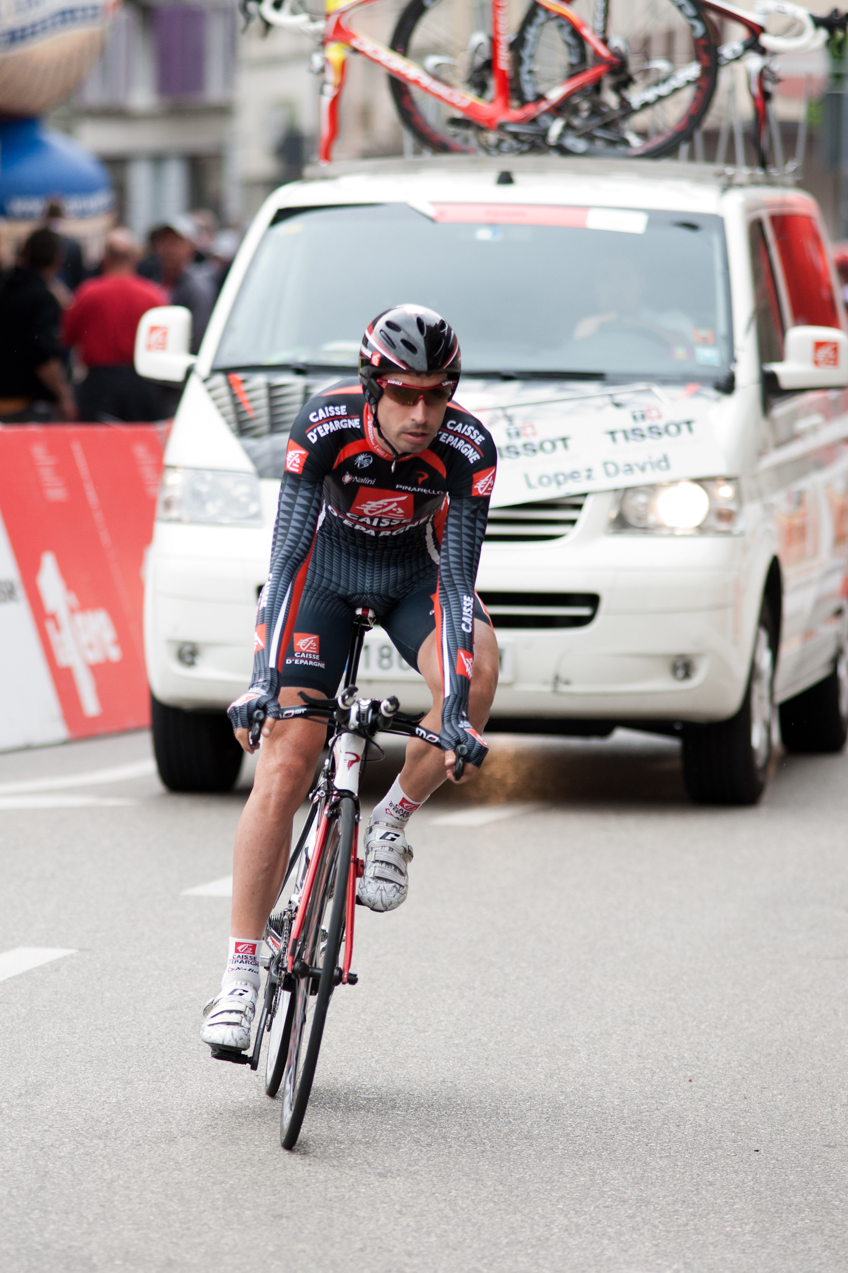 David Lopez Garcia during the 3rd stage of the Tour de Romandie 2010.